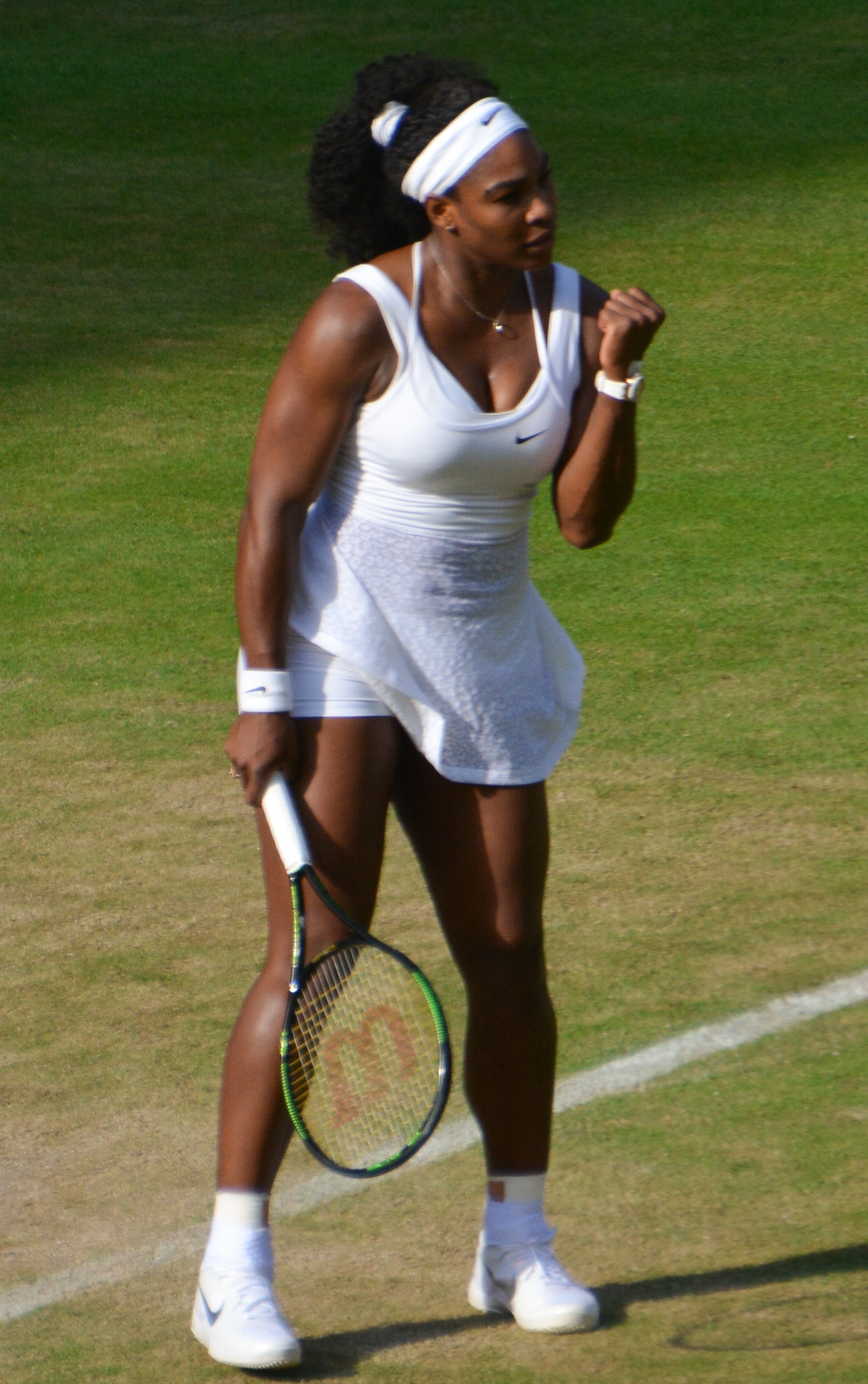 Serena Williams during her 3rd round match with Heather Watson on Centre Court. Day 5 of Wimbledon 2015.